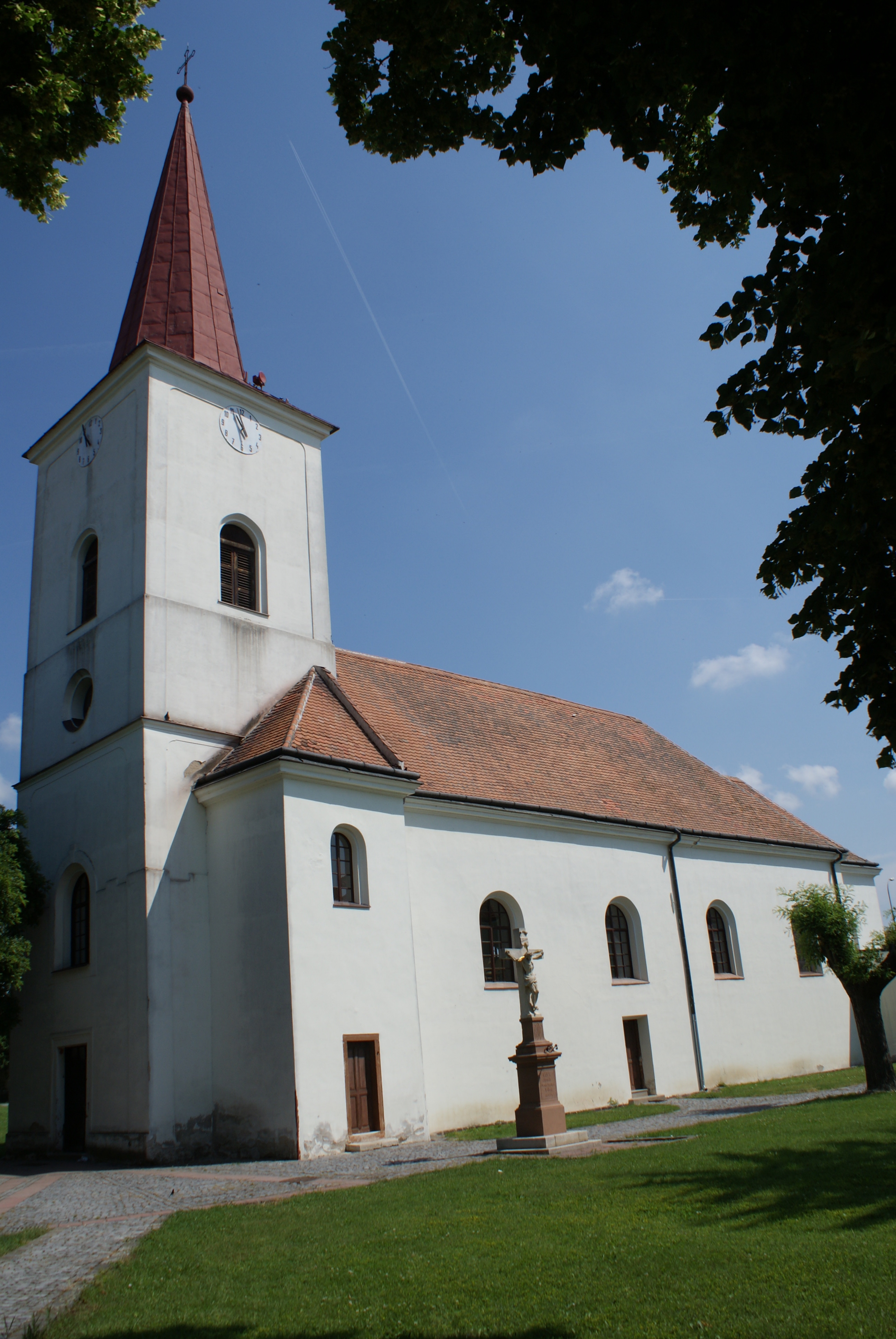 Rakvice, a village in Břeclav District, Czech Republic, church of St John the Baptist.